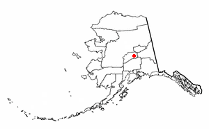 Adapted from Wikipedia's AK borough maps by Seth Ilys.